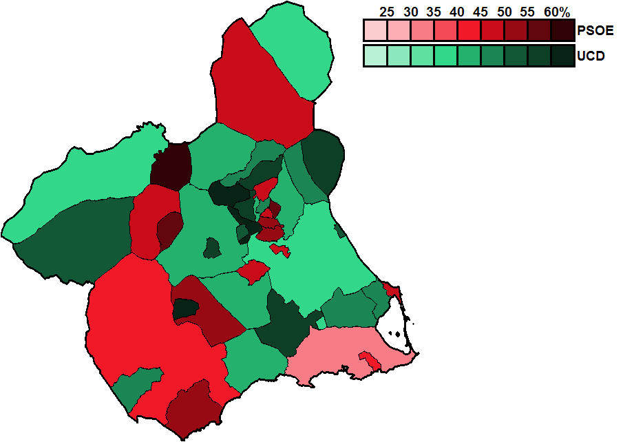 Most-voted party in Murcia municipalities, showing vote share obtained, in the Spanish general election, 1979.